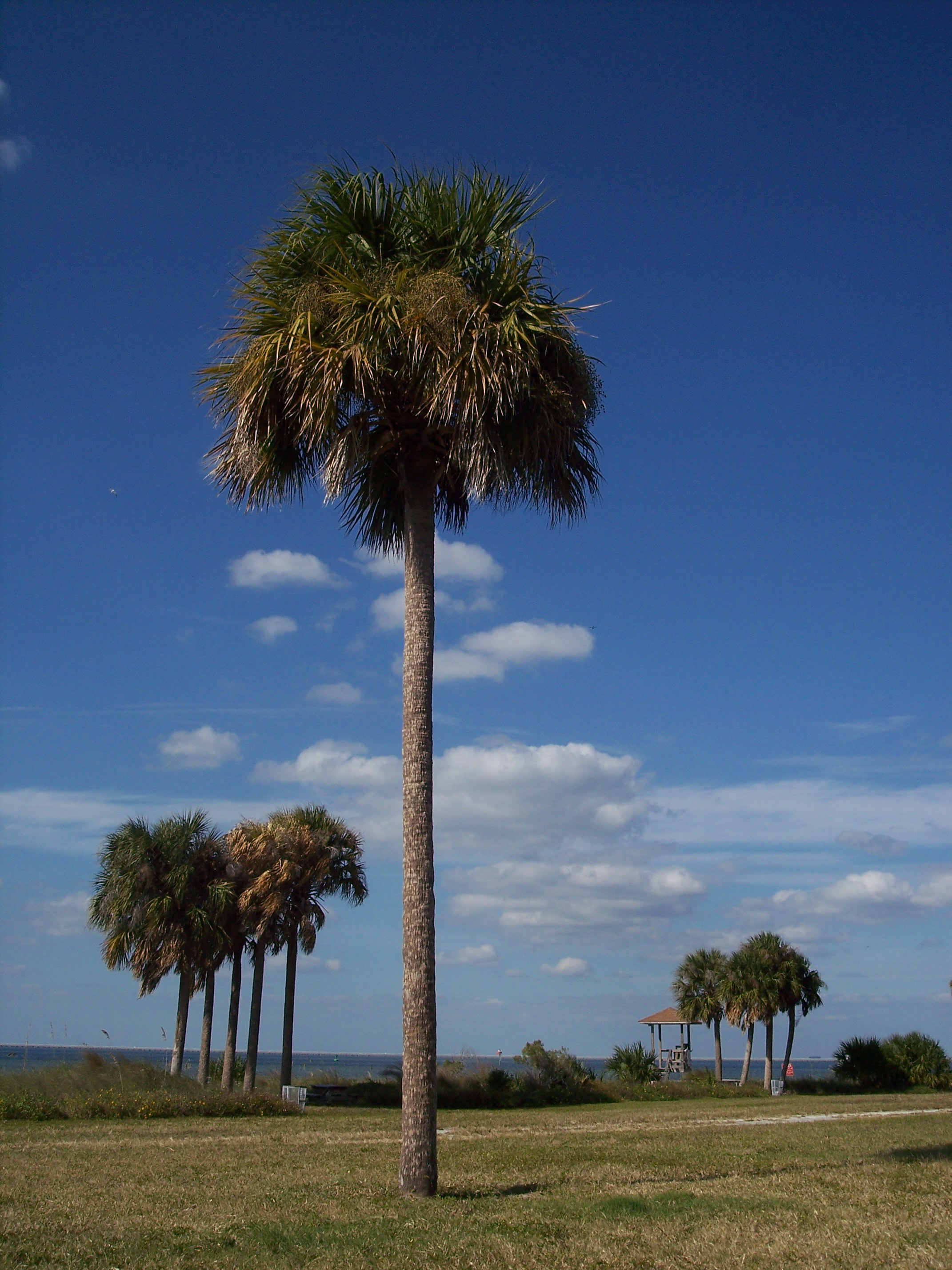 Sabal palmetto in foreground and background